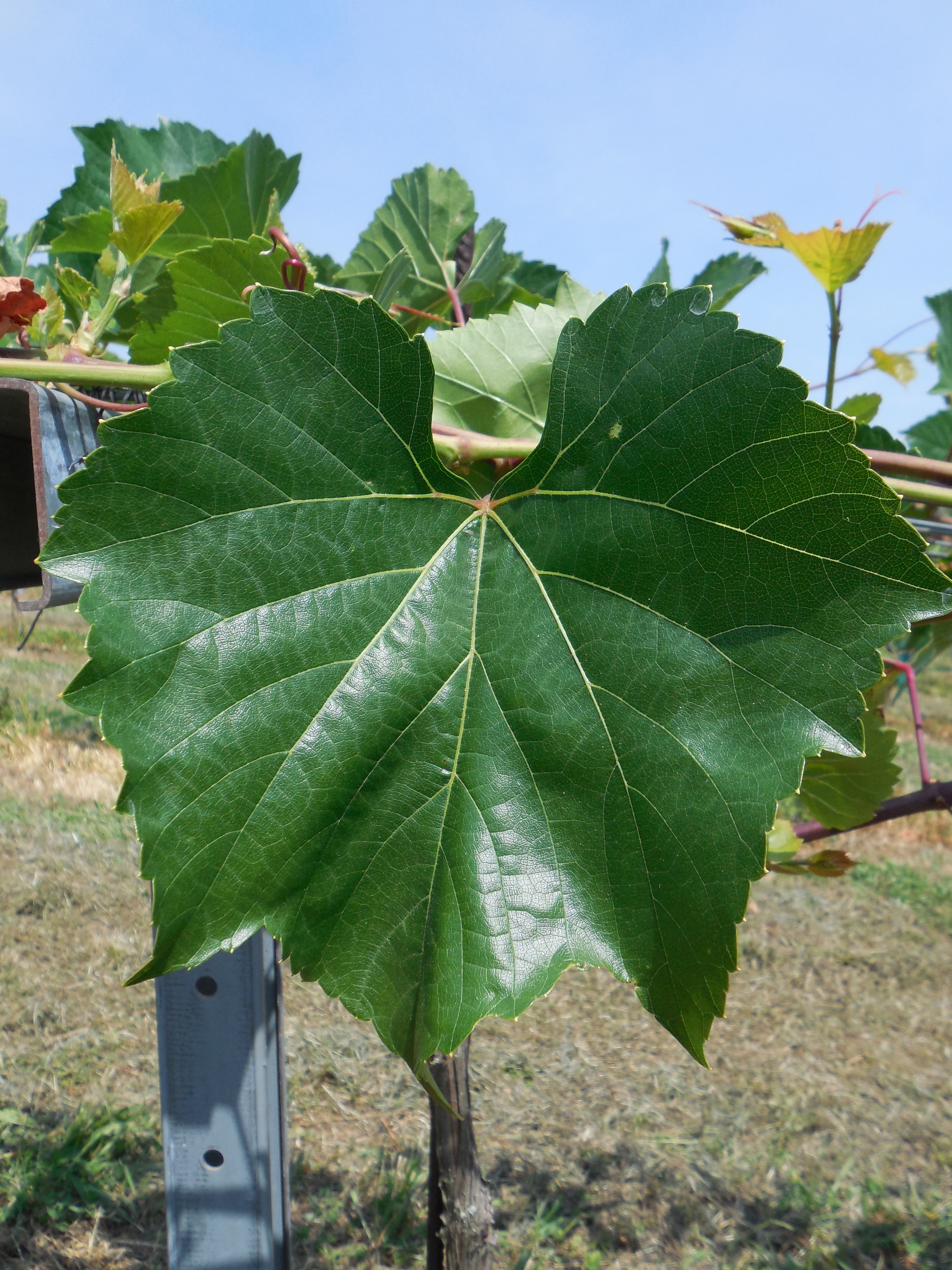 Leaves of a Ruggeri 140